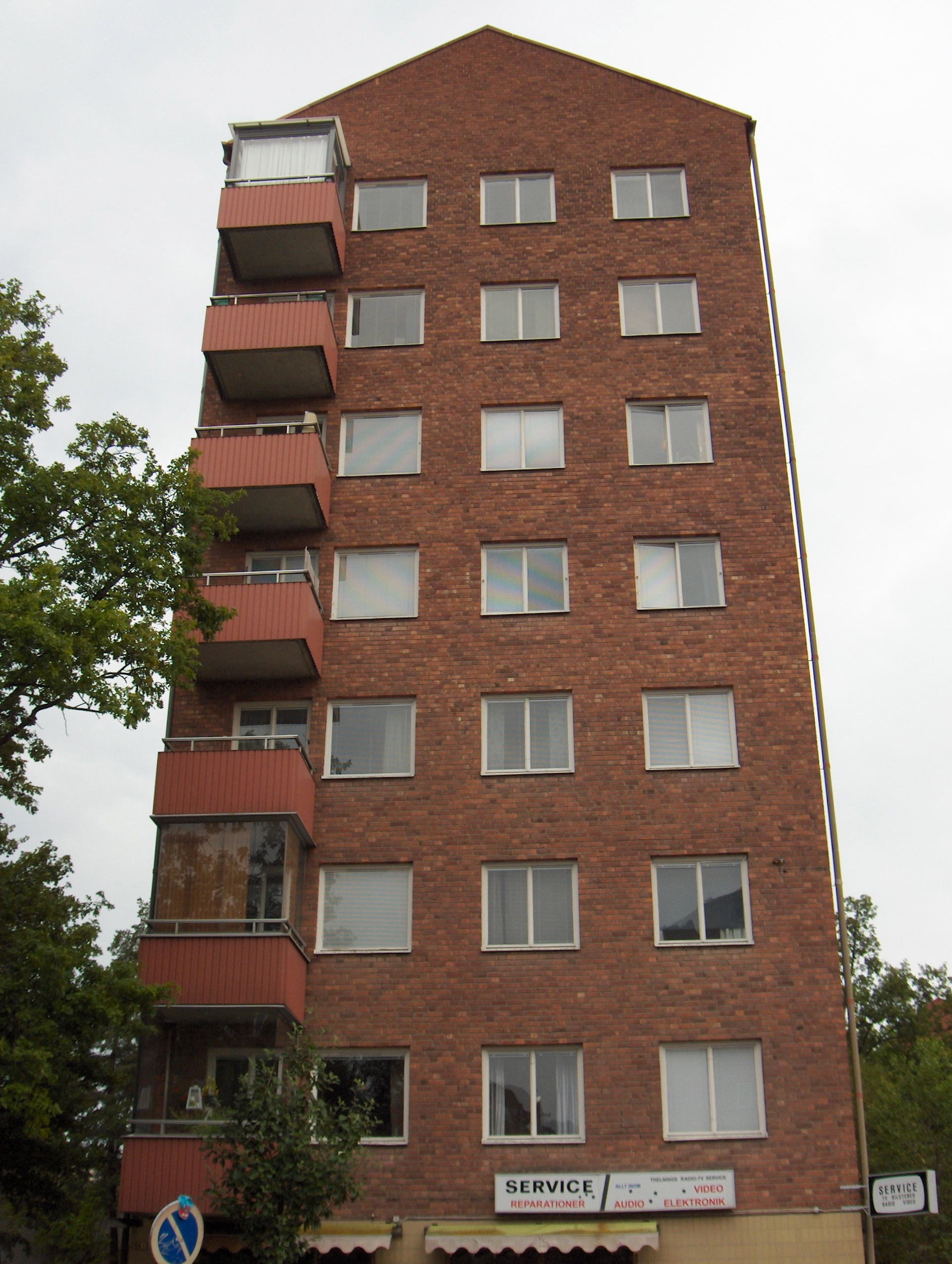 148 Råsundavägen in Råsunda, Solna, Sweden.